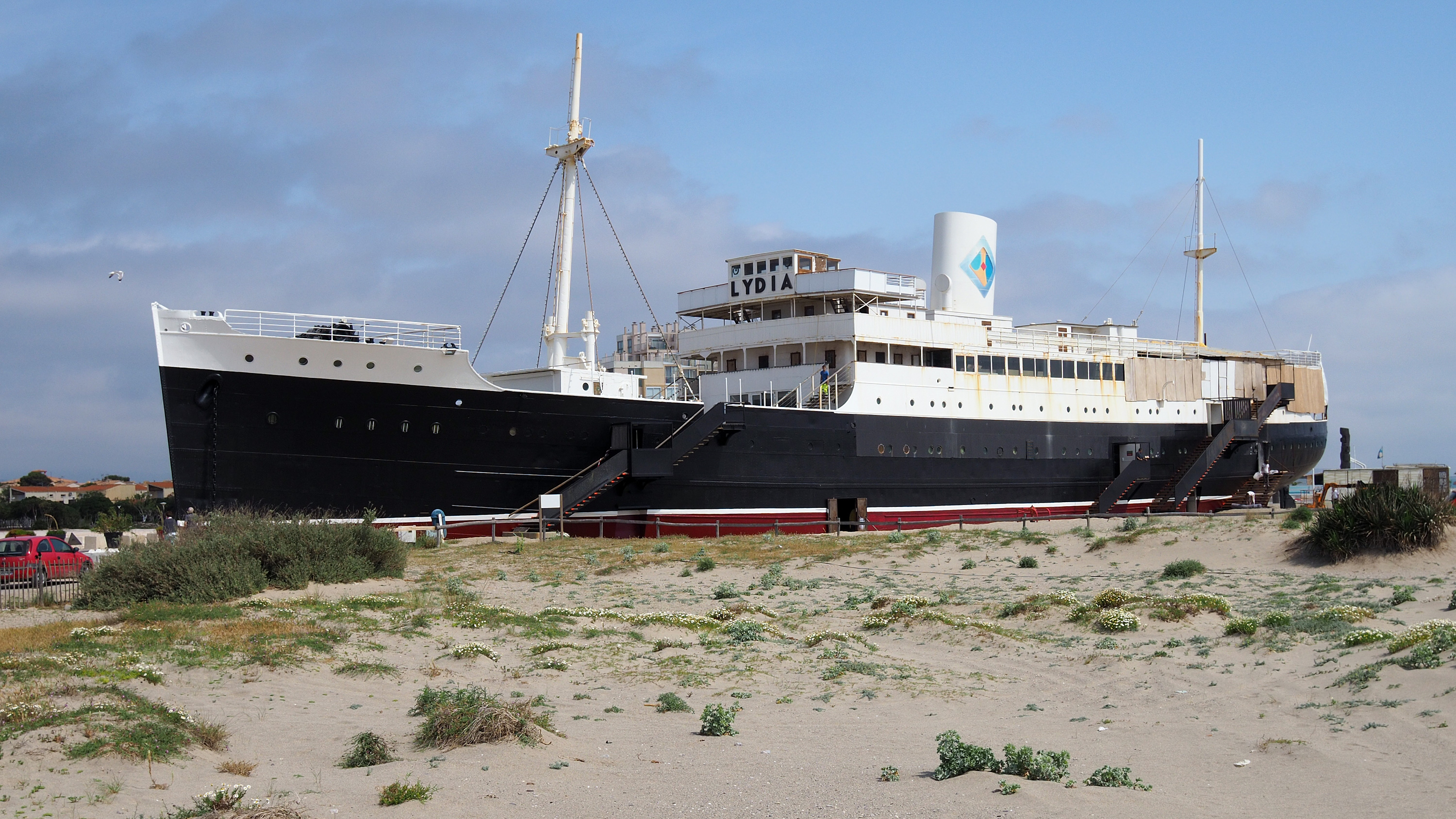 Le Lydia 2019, Le Barcares